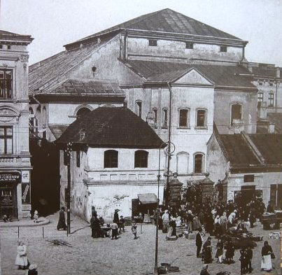 Jews gather outside the magnificent Old Synagogue of Przemyśl.